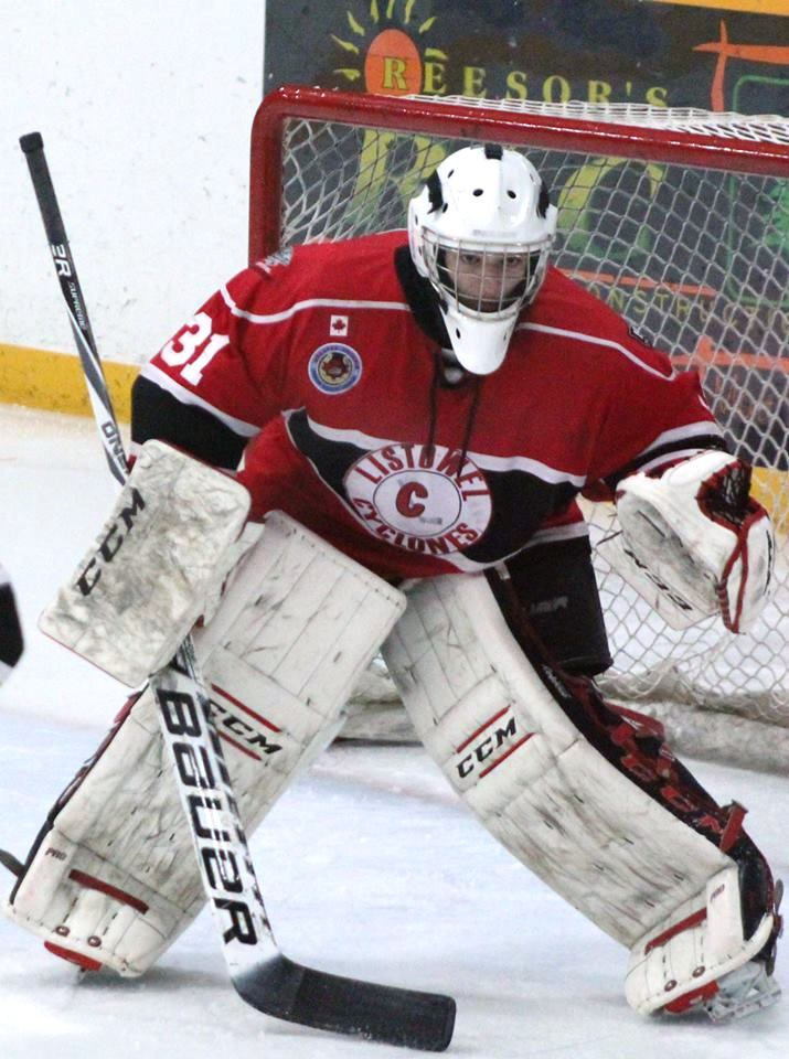 This photo was taken by Devan Mighton during the 2014-15 GOJHL season.